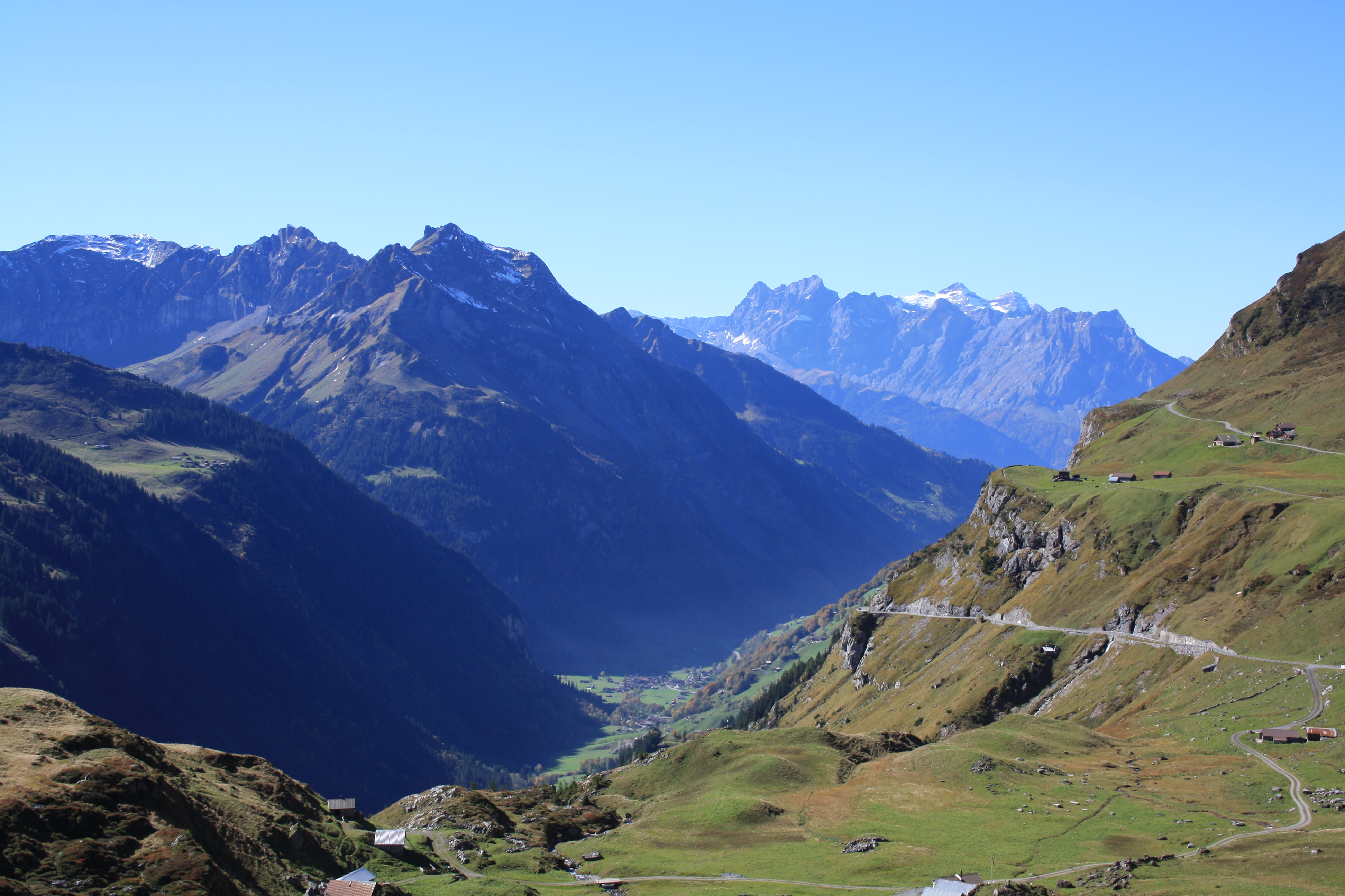 View to Unterschächen, Switzerland